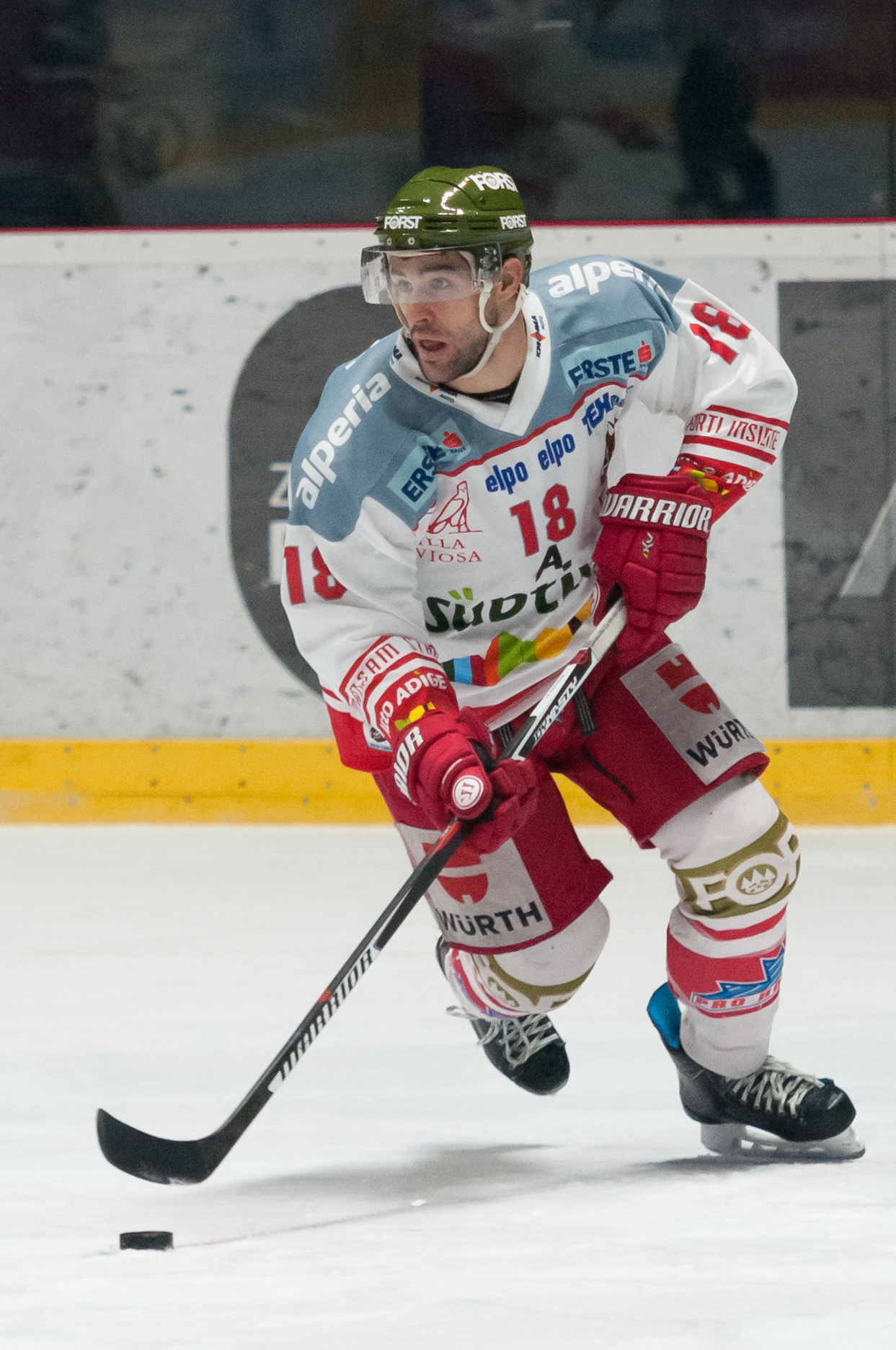 EBEL Orli Znojmo vs. HC Bolzano 2016-02-05